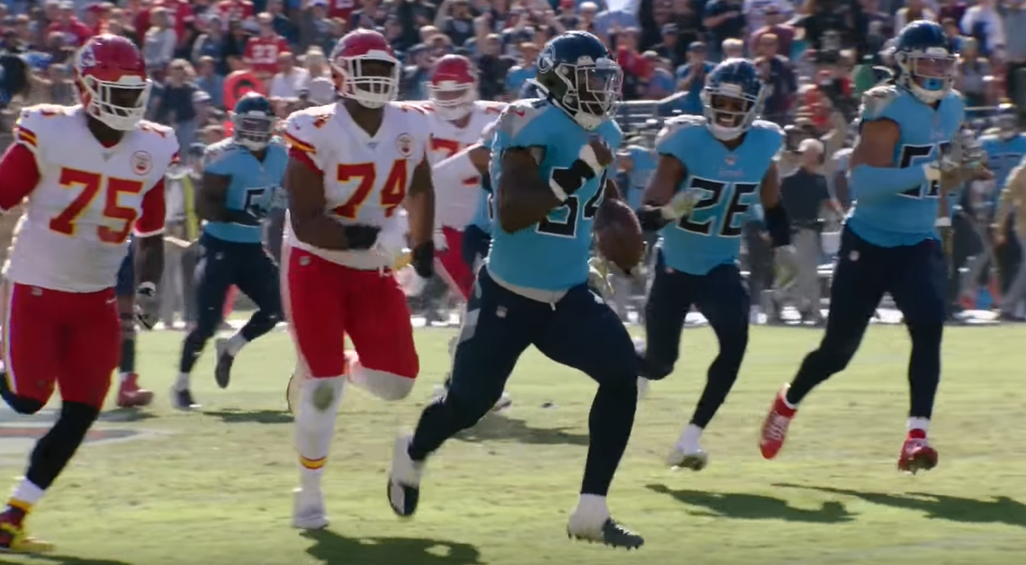 Rashaan Evans 2019. Image taken from video Titans Mic'd Up vs. Chiefs (Week 10) | Sounds of the Game ~ 01:57